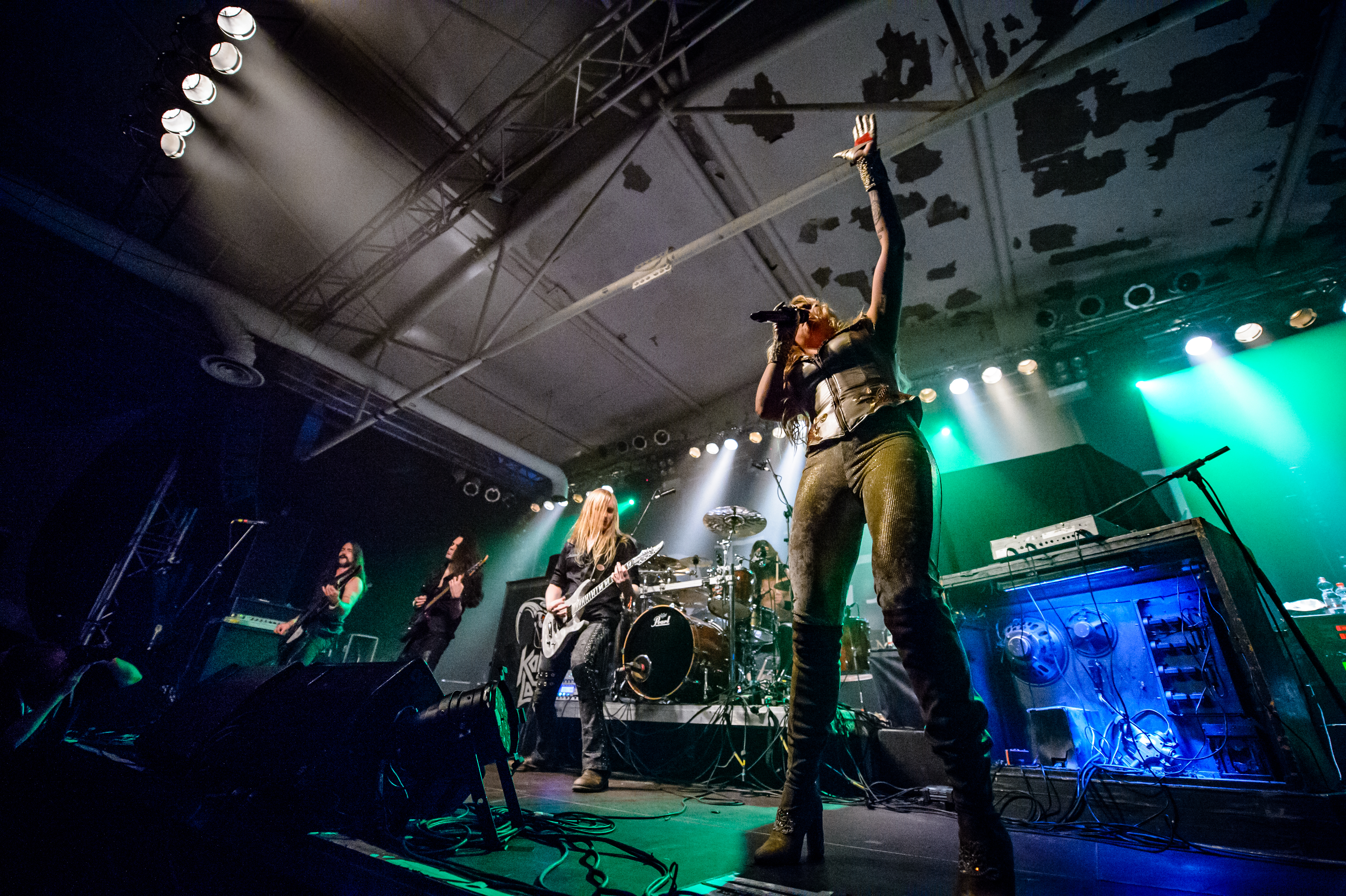 Kobra and the Lotus support for Delain - Moonbathers Tour; Essigfabrik Köln 2016